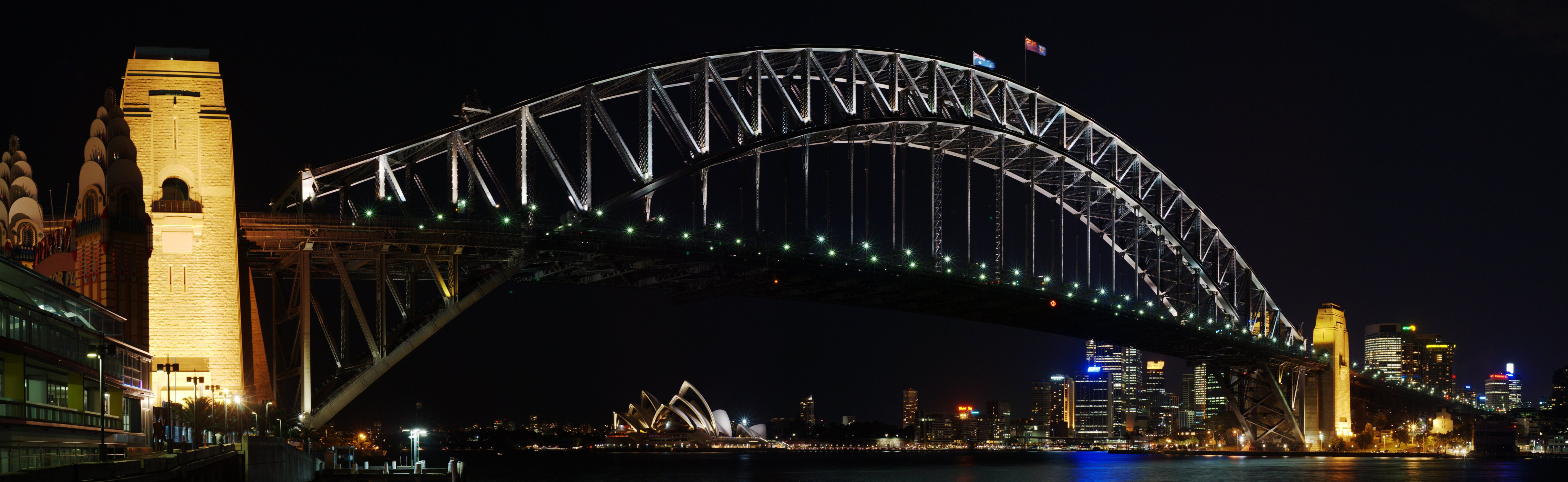 Sydney Harbour Bridge at night, taken near Luna park and Milson's point ferry.